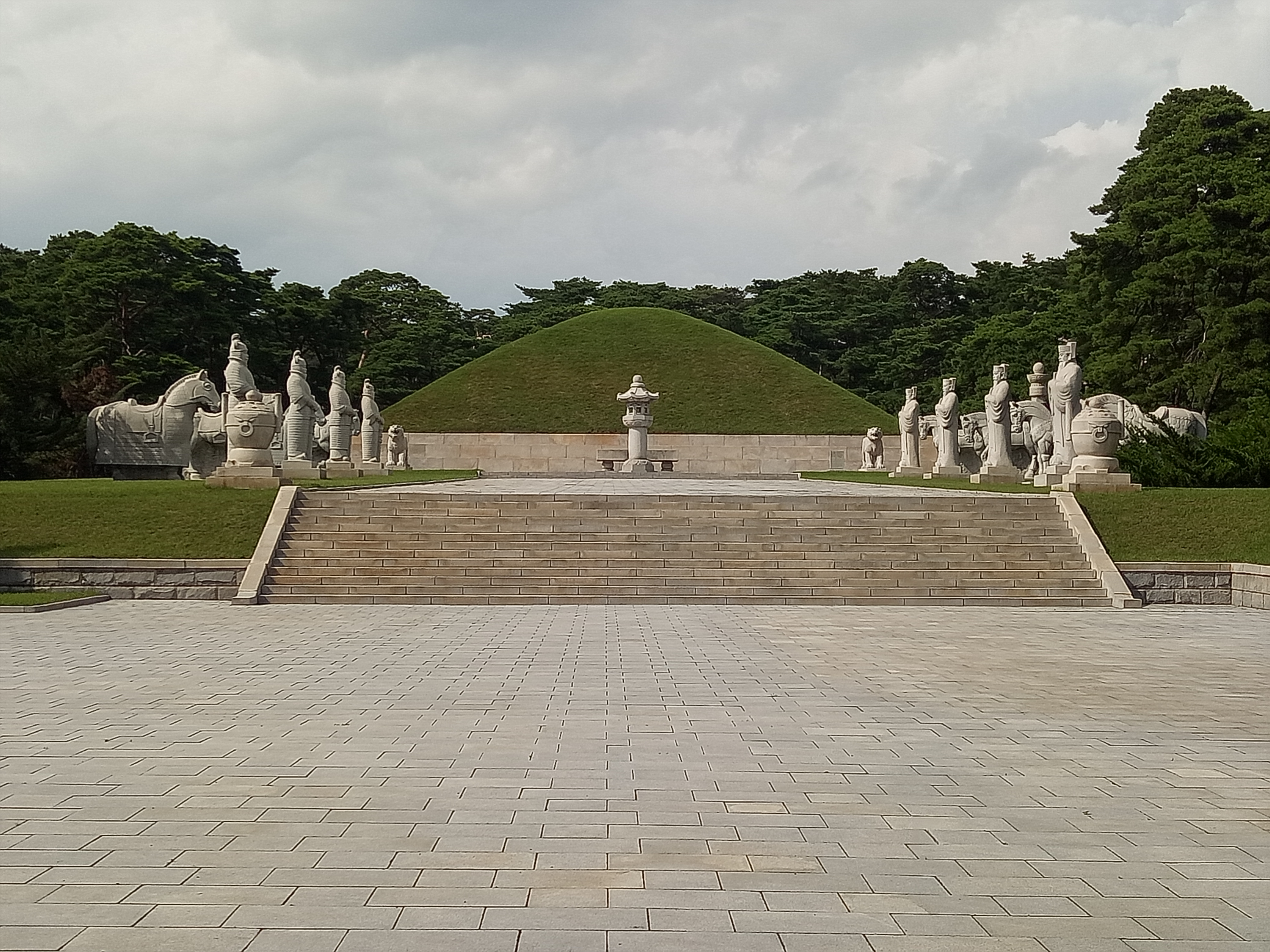 Tumulus and Spirit Way. King Tongmyong's Tomb, Pyongyang.